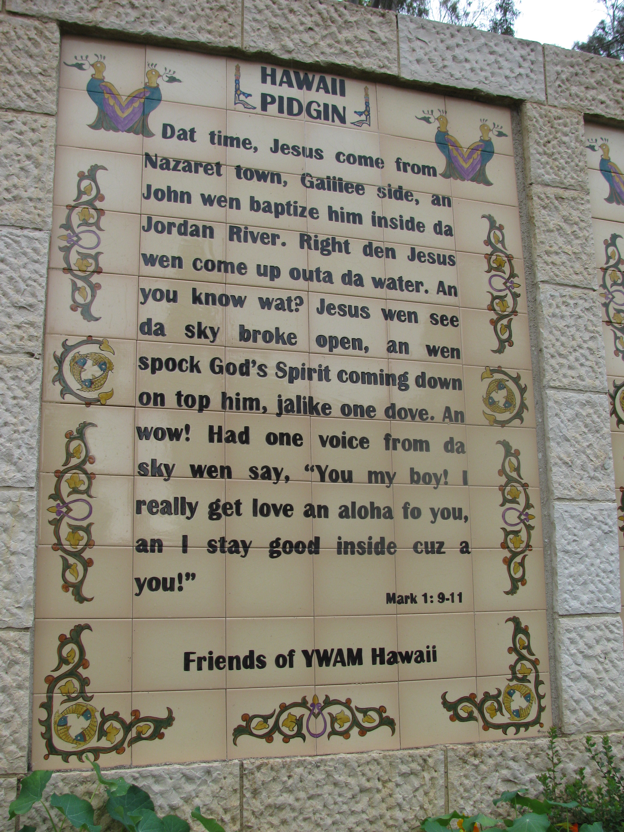 Inscription in Hawaiian Pidgin (New Testament, Mark 1:9-11), Yardenit baptismal site, Israel